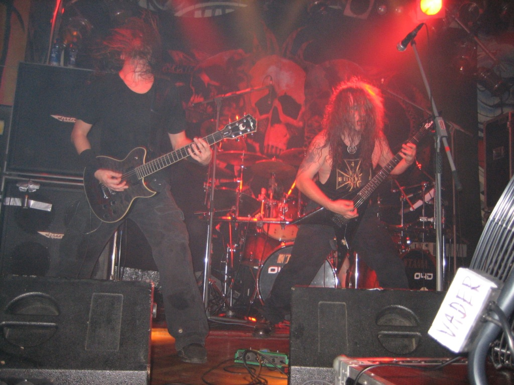 on picture Vader polish death metal band